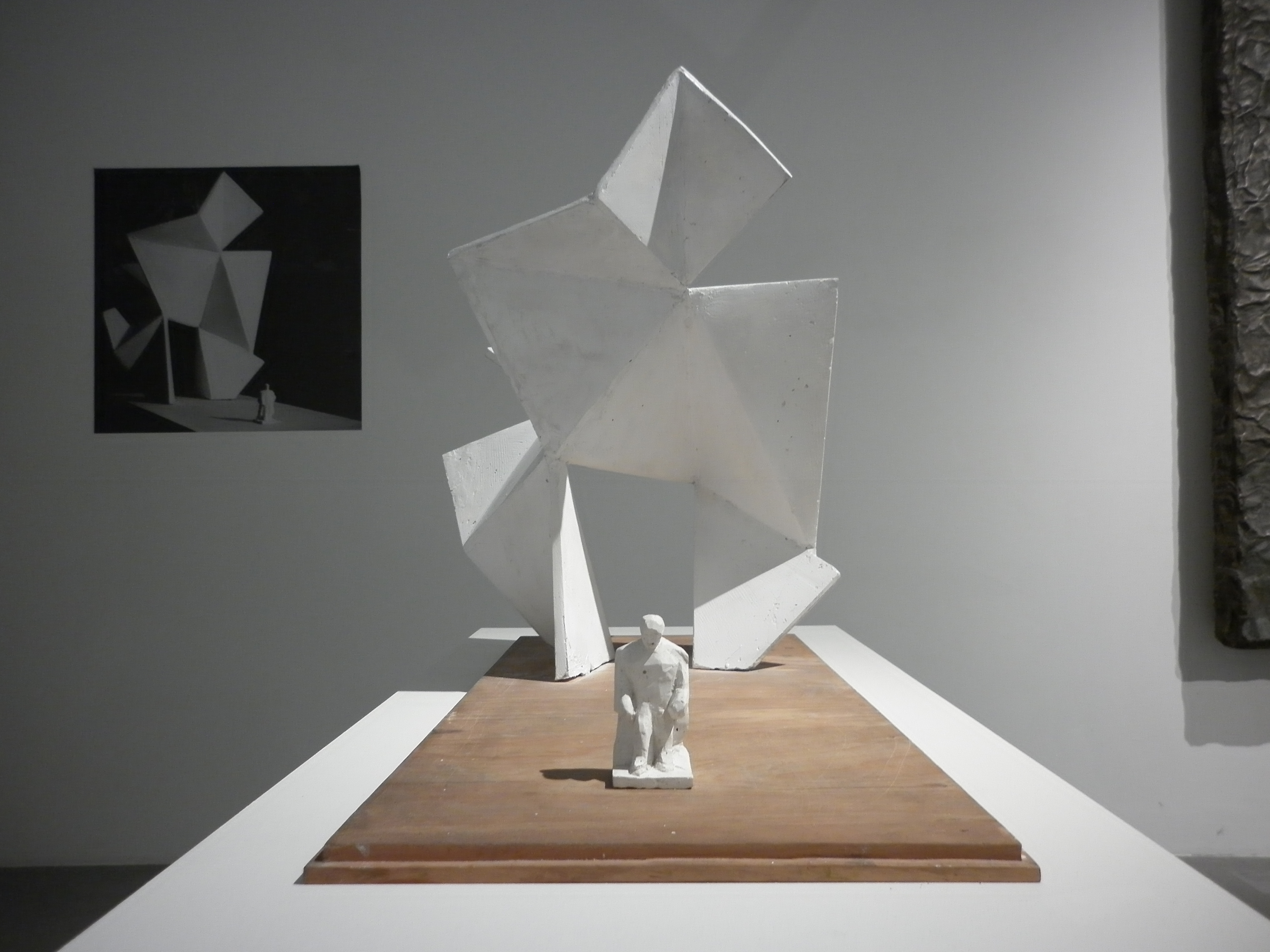 Model of the monument to Josip Broz Tito in Zagreb, which was planned to be built up to 1992. Part of the exhibition "Vojin Bakić retrospective" (December 6, 2013 - March 2, 2014) in the Museum of the Contemporary Art in Zagreb.